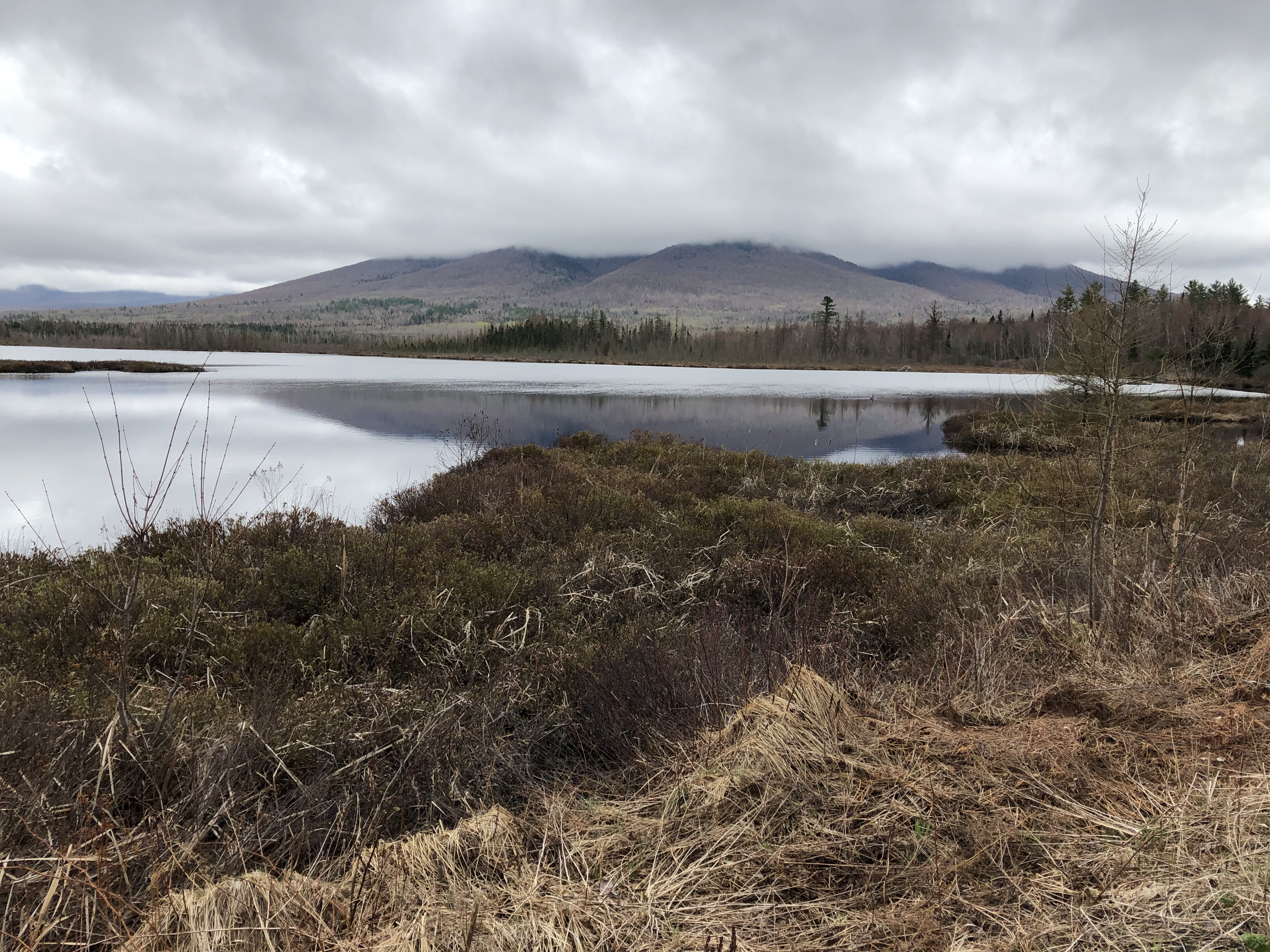 Silvio O. Conte National Fish and Wildlife Refuge Pondicherry Division in Jefferson, New Hampshire